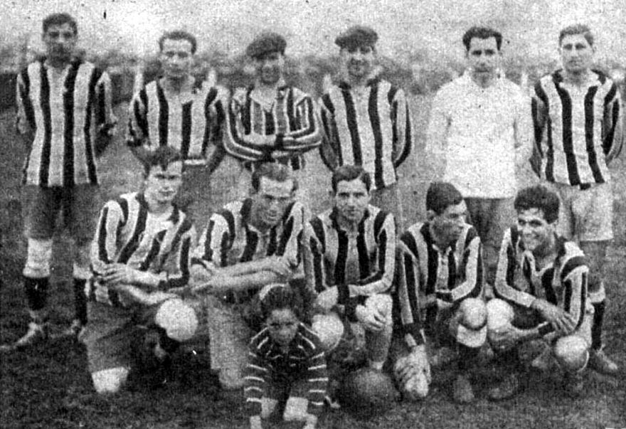 Team of C.A. Palermo that played in Argentine Primera División